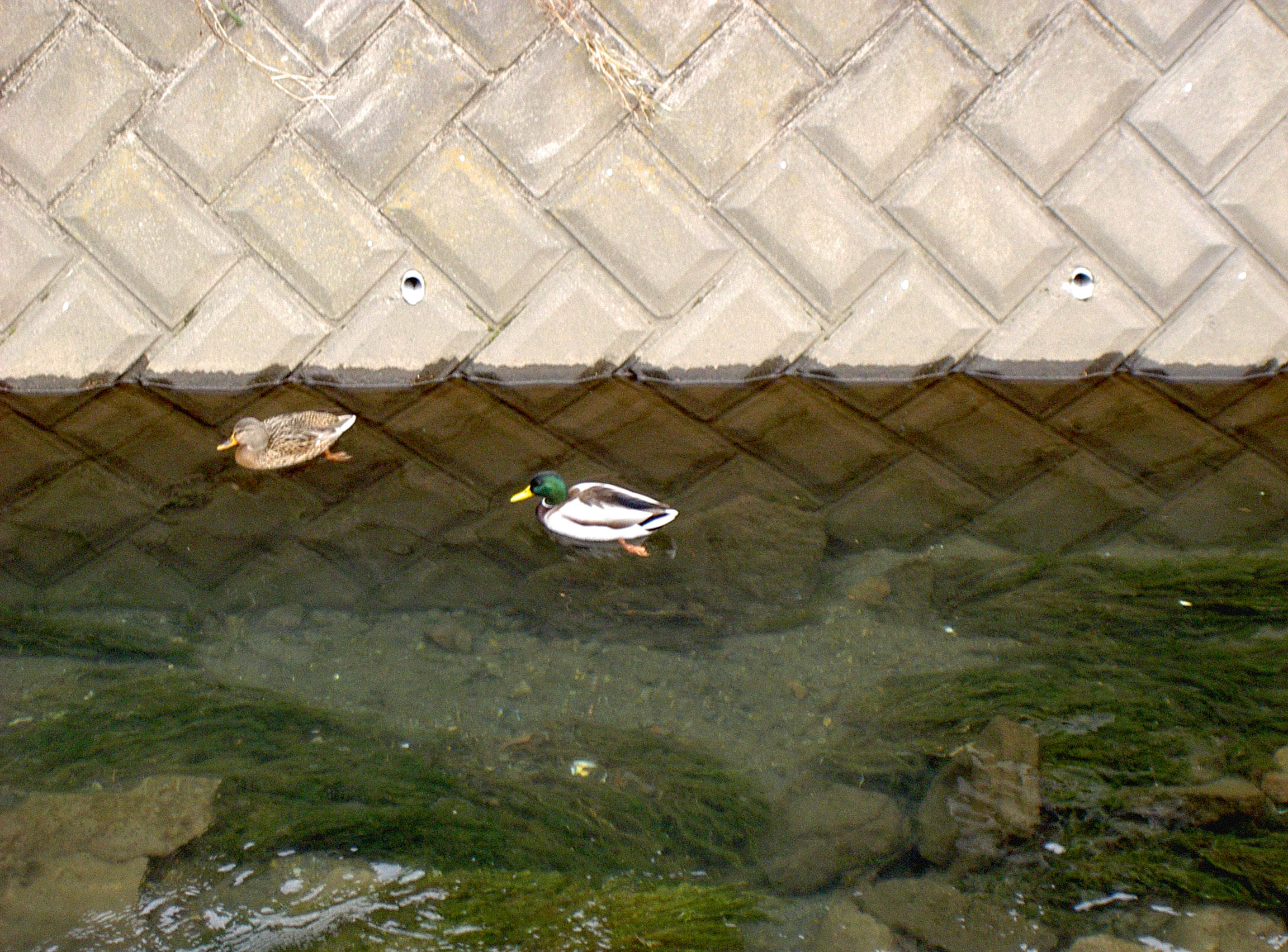 Male and famale mallards in Mekujiri river, Kanagawa prefecture, Japan. ja: マガモ - 神奈川県の目久尻川にて撮影。